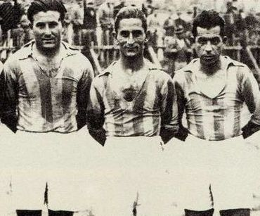 Olympiacos players, from left to right: Christoforos Rággos, Giannis Vázos, Theologos Symeonídis